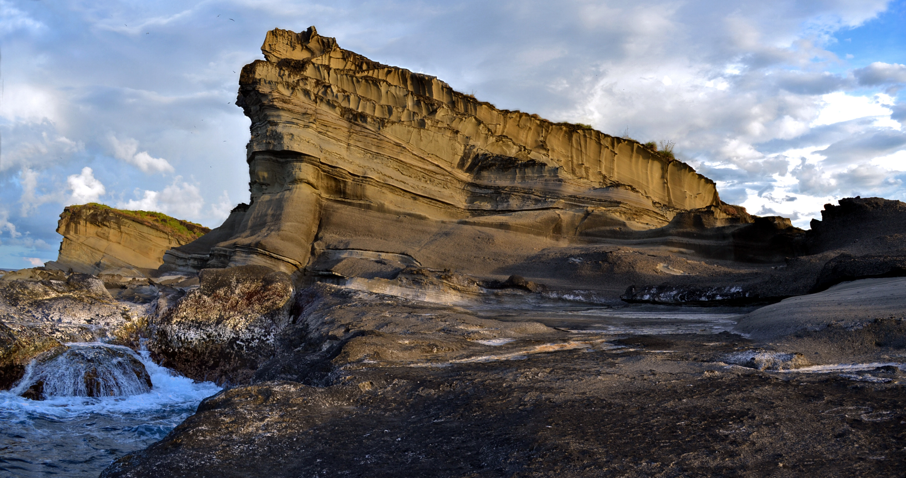 Magsapad Rock Formation.